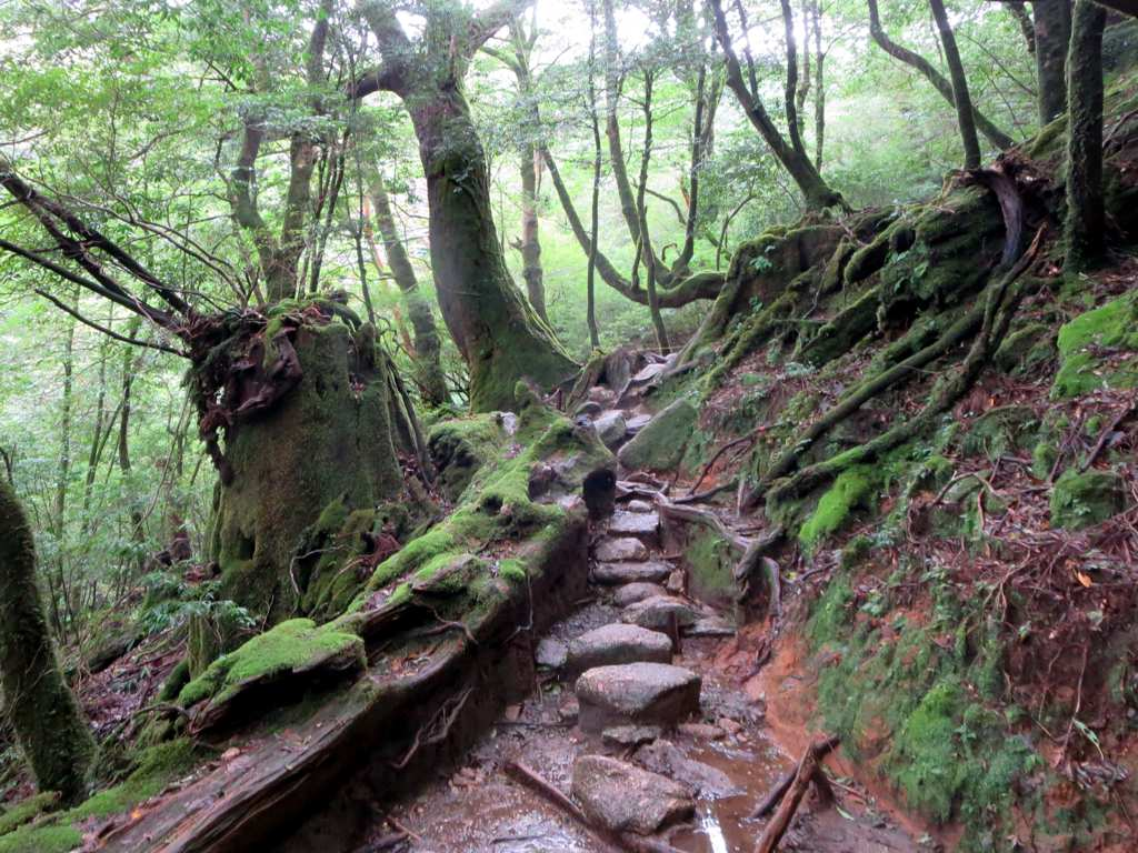 The Taikoiwa Trail in the Shiratani Unsuikyo Natural Forest in central Yakushima Island, Japan, gives access to a scenic wonderland.